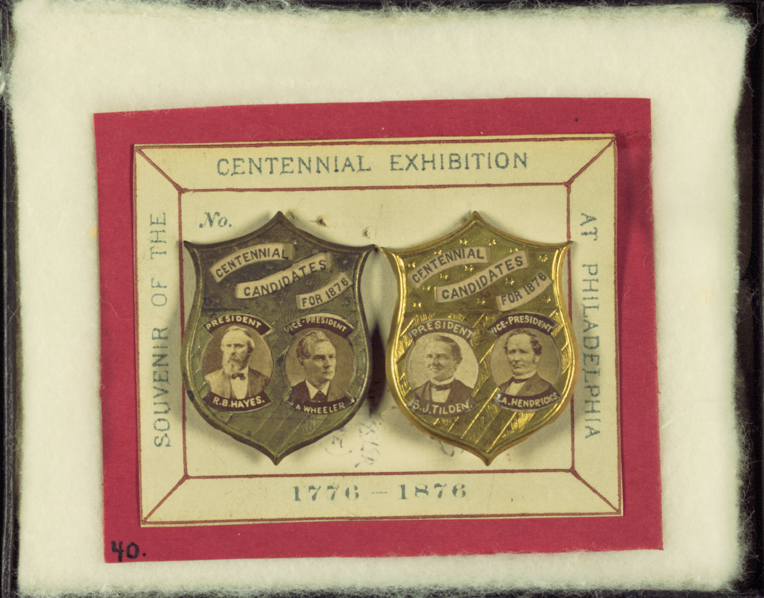 Collection: Cornell University Collection of Political Americana, Cornell University Library Repository: Susan H. Douglas Political Americana Collection, #2214 Rare & Manuscript Collections, Cornell University Library, Cornell University Title: "Centennial Candidates for 1876" Portrait Pins Political Party: Democratic Election Year: 1876 Date Made: 1876 Measurement: Mount: 4 1/4 x 5 1/4 in.; 10.795 x 13.335 cm Classification: Photographs Persistent URI: There are no known U.S. copyright restrictions on this image. The digital file is owned by the Cornell University Library which is making it freely available with the request that, when possible, the Library be credited as its source.